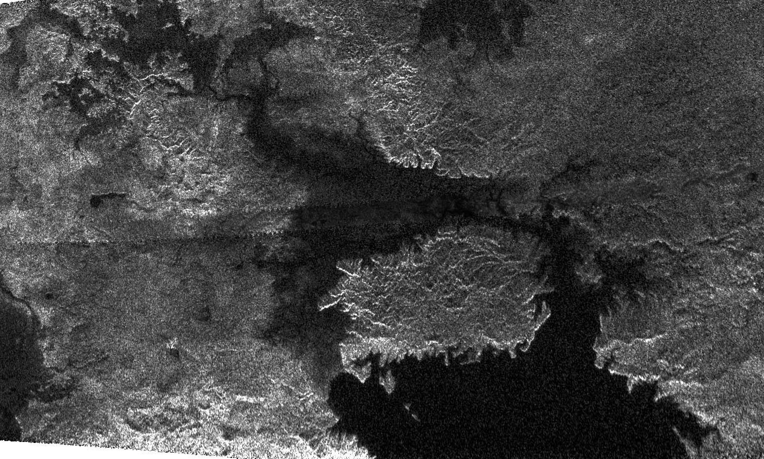 This radar image, obtained by Cassini's radar instrument during a near-polar flyby on Feb. 22, 2007, shows a big island smack in the middle of one of the larger lakes imaged on Saturn's moon Titan. This image offers further evidence that the largest lakes are at the highest latitudes. The island is about 90 kilometers (62 miles) by 150 kilometers (93 miles) across, about the size of Kodiak Island in Alaska or the Big Island of Hawaii. The island may actually be a peninsula connected by a bridge to a larger stretch of land. As you go farther down the image, several very small lakes begin to appear, which may be controlled by local topography. This image was taken in synthetic aperture mode at 700 meter (2,300 feet) resolution. North is toward the left. The image is centered at about 79 north degrees north and 310 degrees west. The Cassini-Huygens mission is a cooperative project of NASA, the European Space Agency and the Italian Space Agency. The Jet Propulsion Laboratory, a division of the California Institute of Technology in Pasadena, manages the mission for NASA's Science Mission Directorate, Washington, D.C. The Cassini orbiter was designed, developed and assembled at JPL. The radar instrument was built by JPL and the Italian Space Agency, working with team members from the United States and several European countries. For more information about the Cassini-Huygens mission visit The original NASA image has been modified by rotating 180 deg. to put north at the top and cropping.